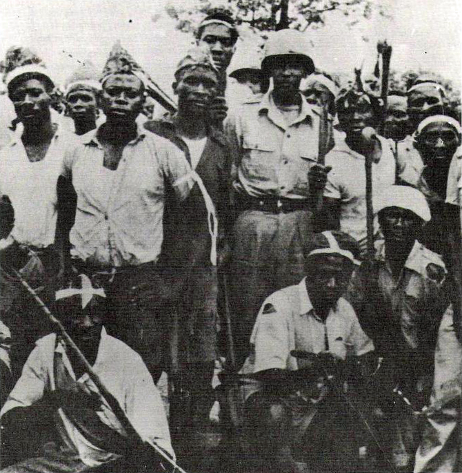 Armed members of the Jeunesse BALUBAKAT (Young Baluba of Katanga) group